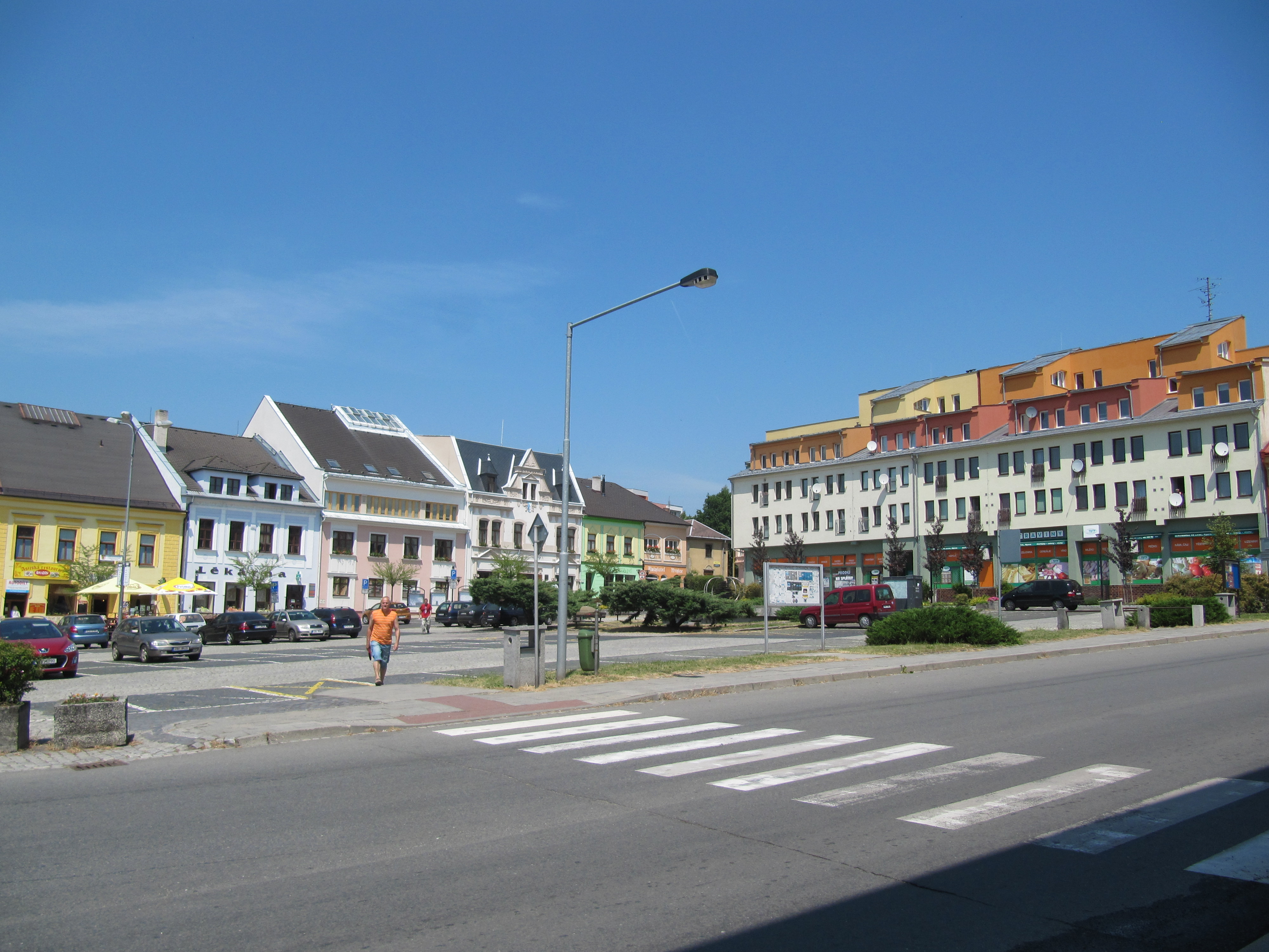 Vítkov, Opava District, Czech Republic. Náměstí Jana Zajíce square.